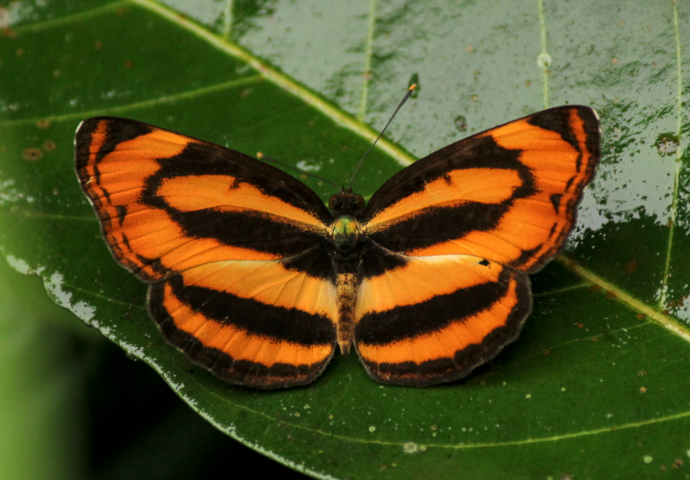 A Common lascar (Pantoporia hordonia) butterfly in a Rambutan. Photographed near Kanjirappally.